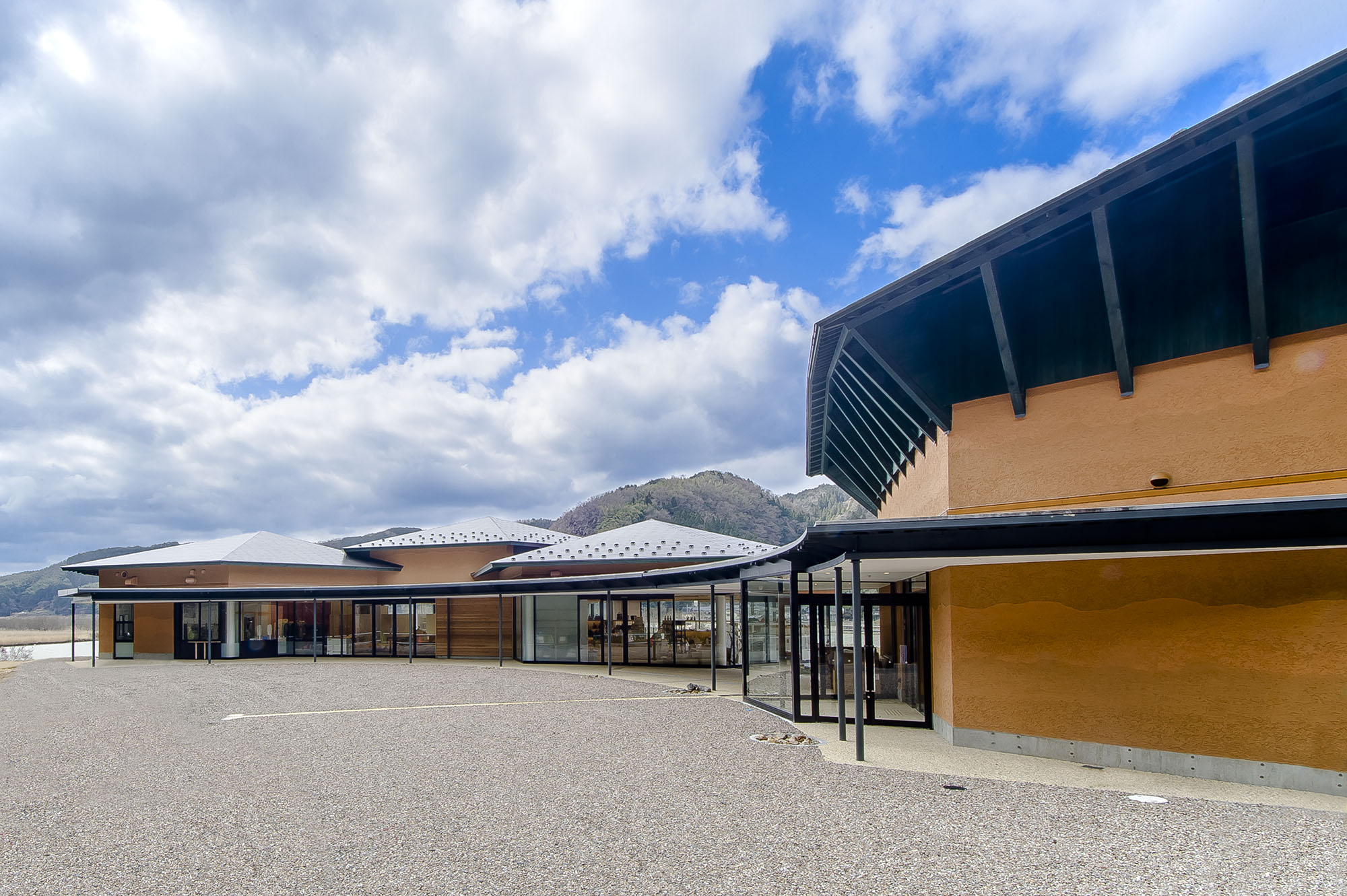 hexisagonal building from the shape of basalt and the range of genbudo